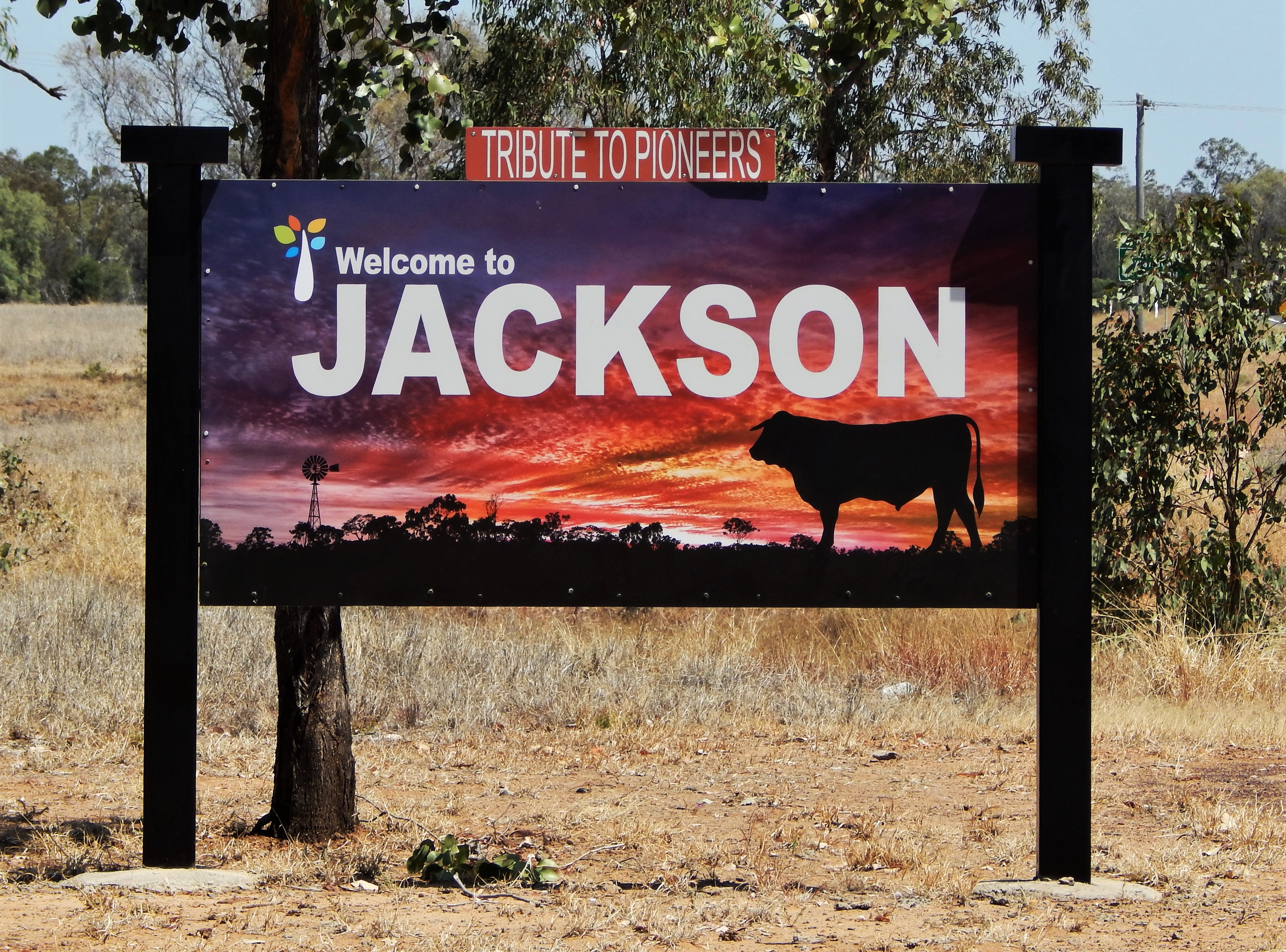 The Welcome to Jackson sign, located at the eastern entrance to the township of Jackson, Queensland